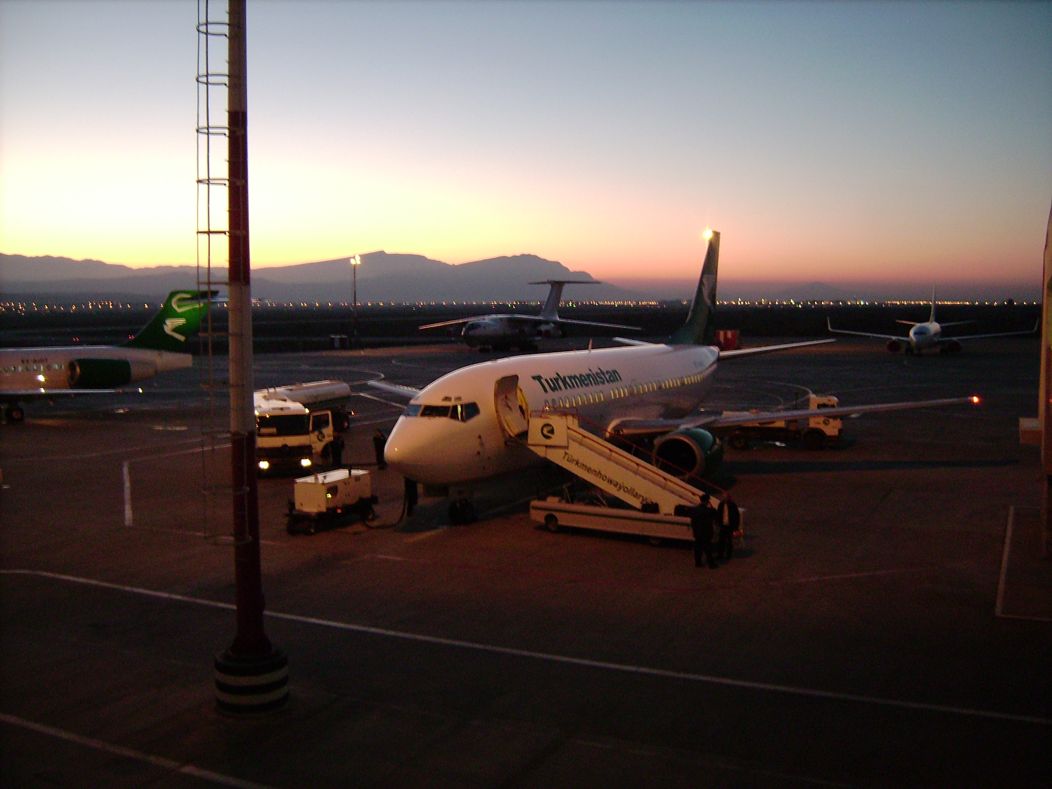 Turkmenistan Airlines Boeing 737-300 and other aircraft at Ashgabat Airport